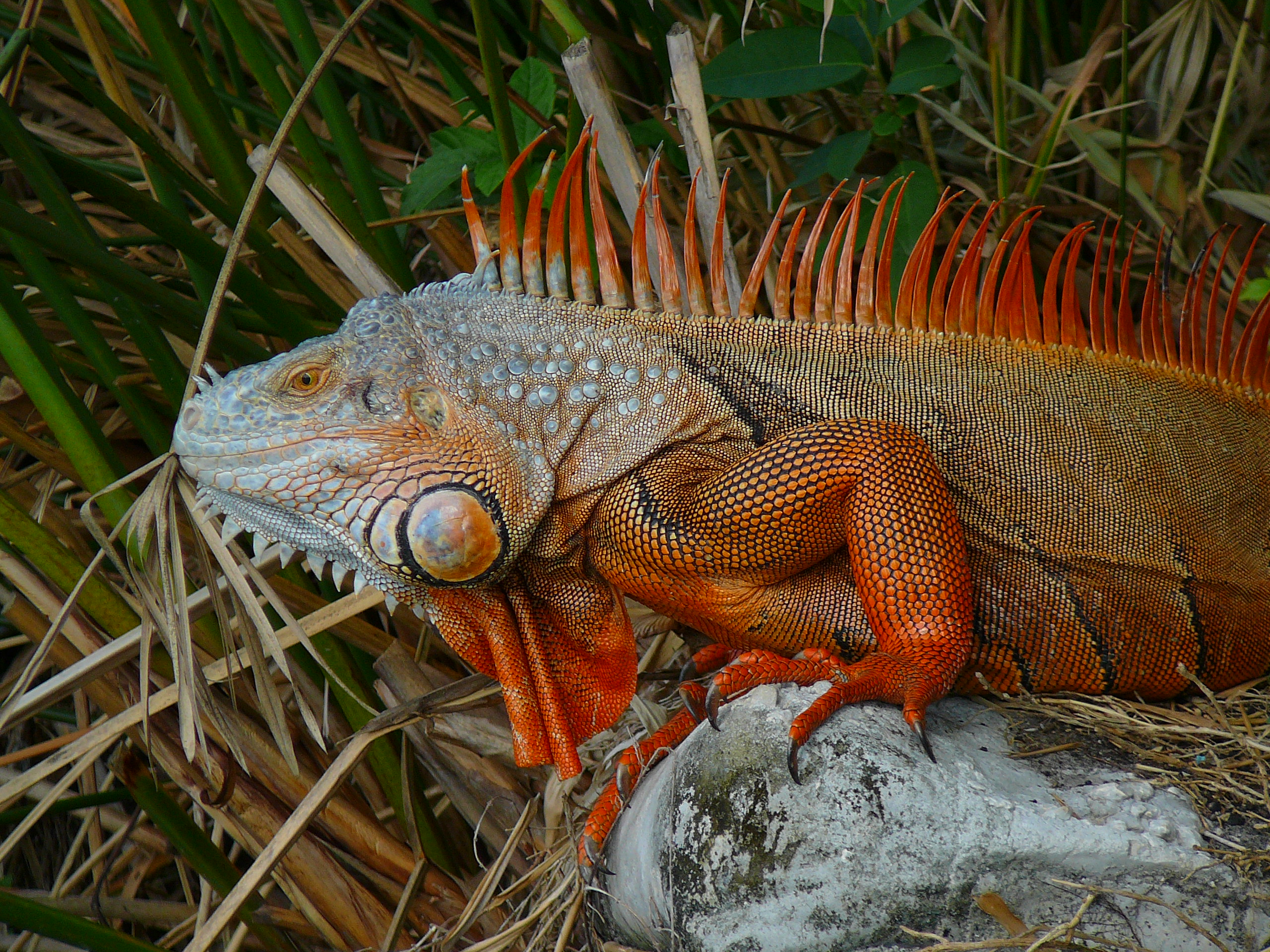 Iguana iguana from back yard in Florida.